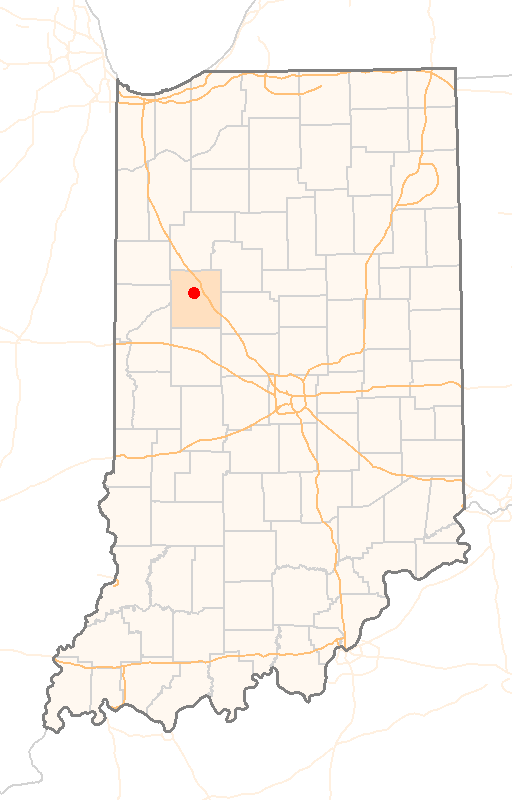 Red Dot map of Indiana, showing the location of West_Lafayette